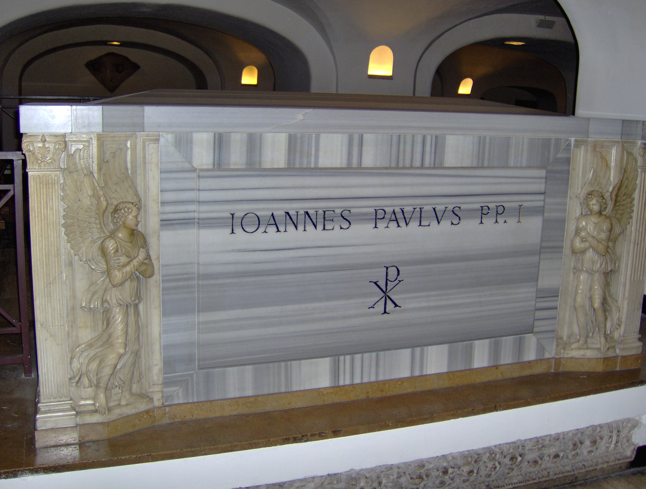 Grotte vaticane , tomb